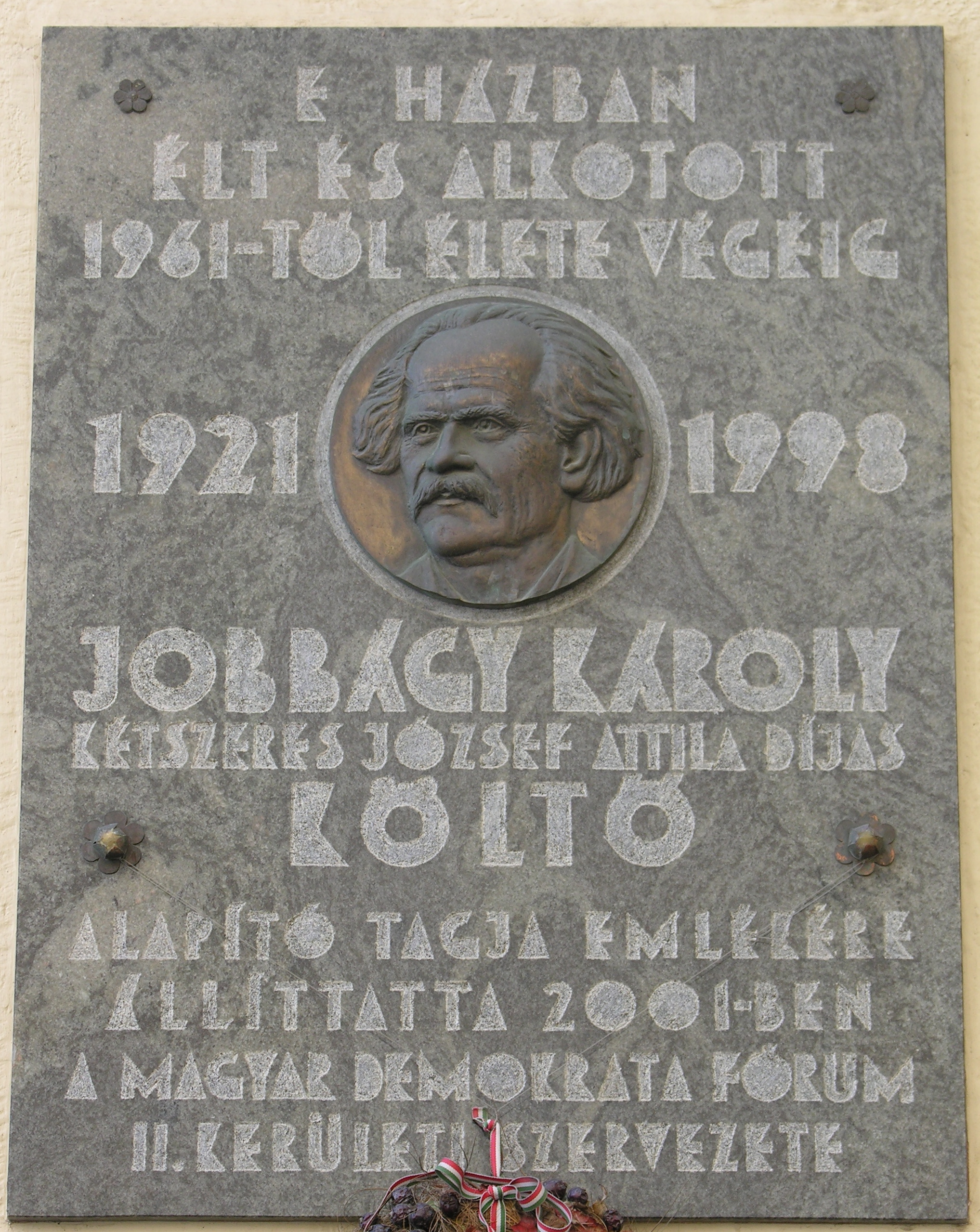 Commemorative plaque of Károly Jobbágy in Budapest District II, Kavics Street No 2/a